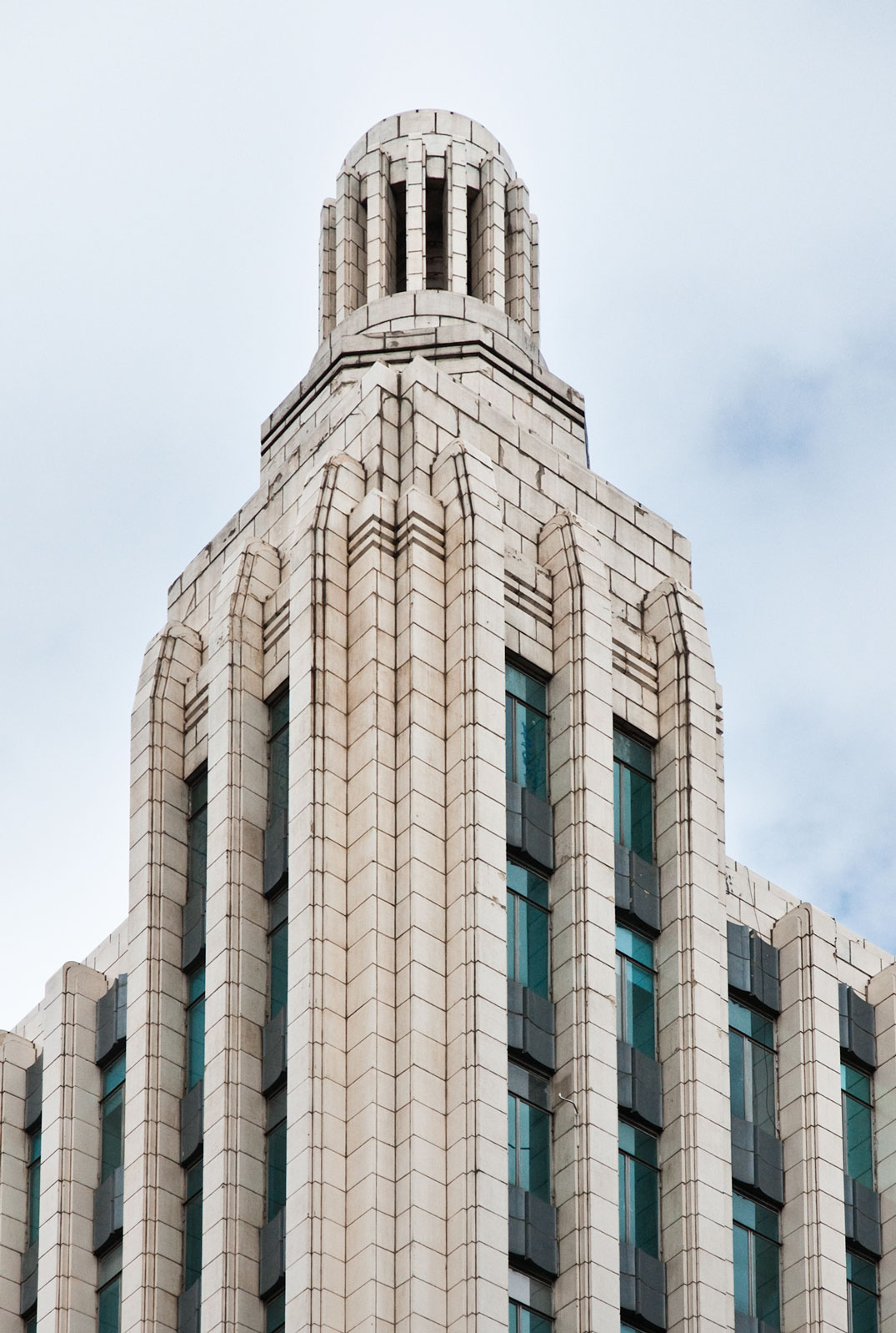 photo taken on 14/4/10